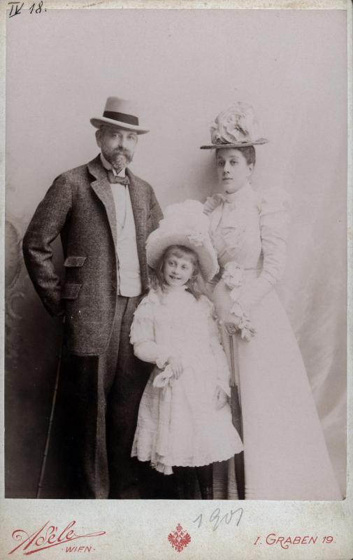 Pyotr Kapnist with his wife Nadezhda (née Stenbock-Fermor) and their daughter Marguerite